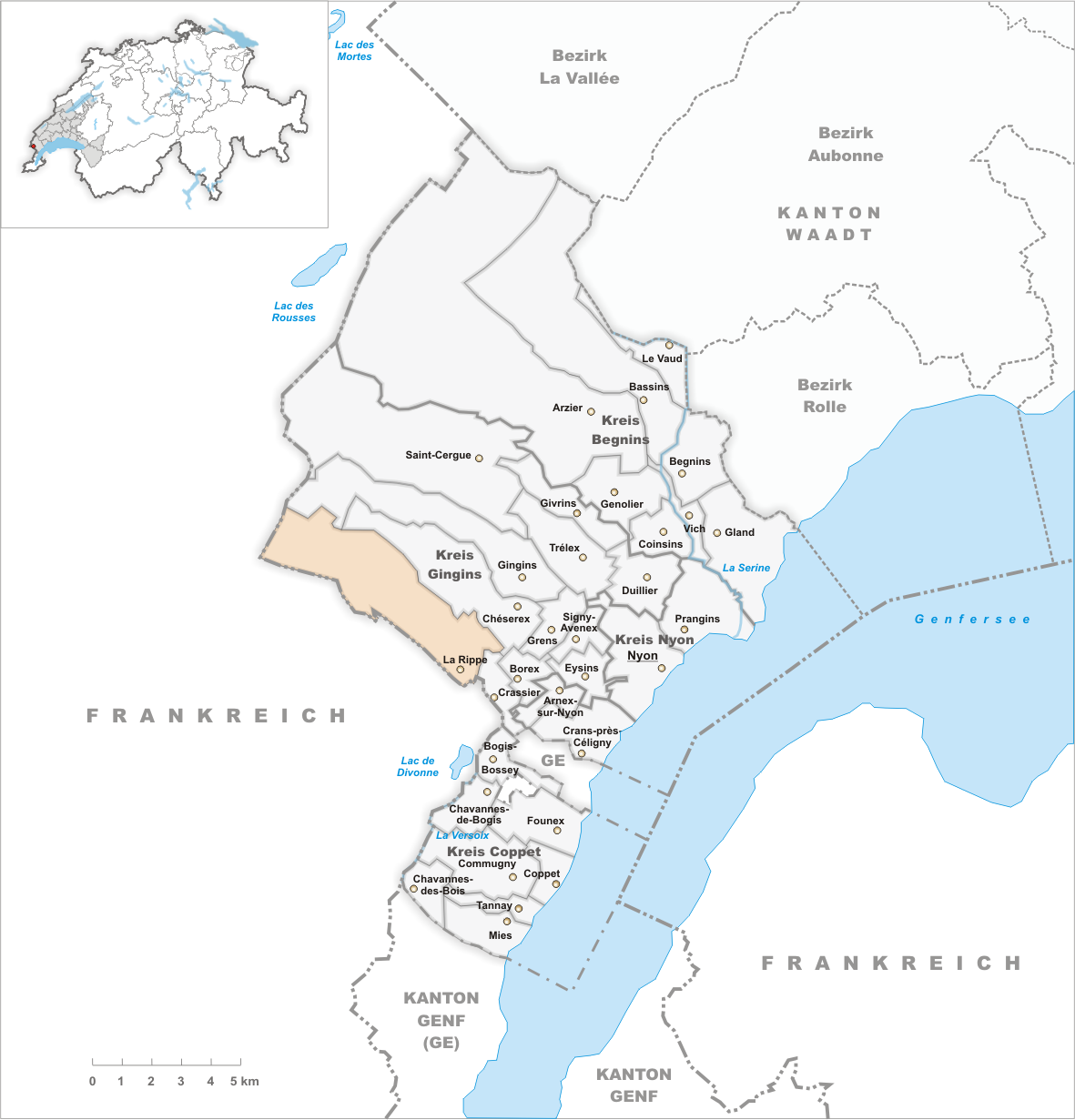 Municipality La Rippe